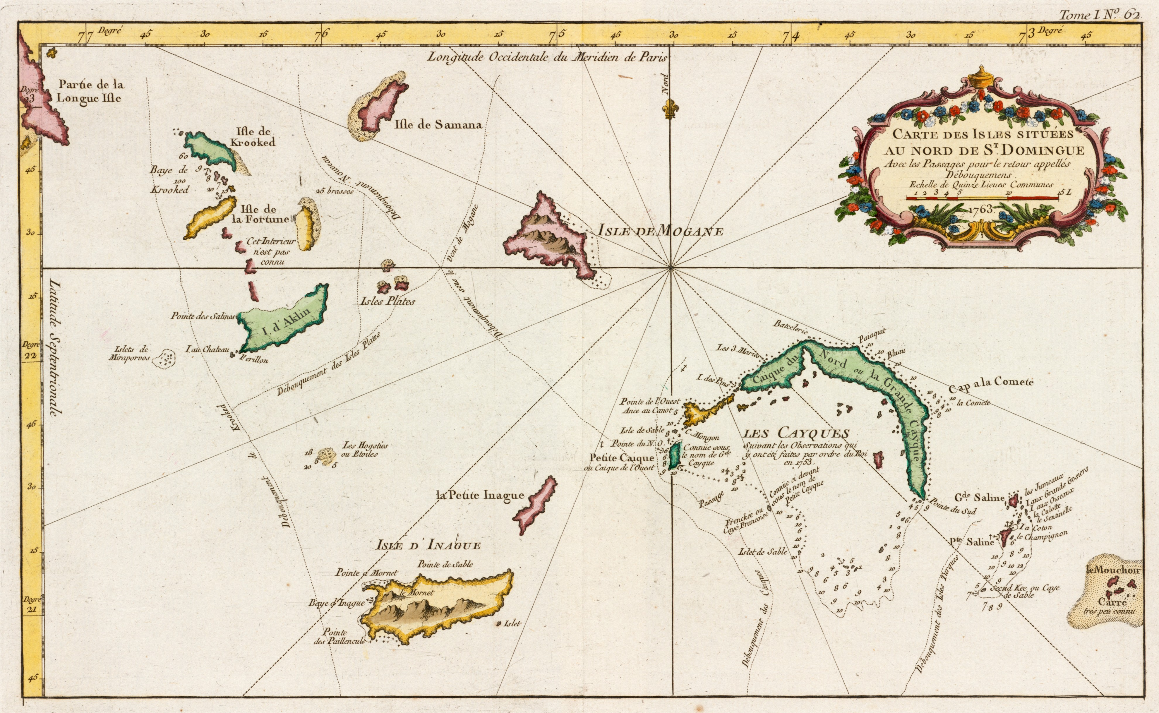 Zoom into this map at . Author: Bellin, Jacques Nicolas Publisher: Jacques Nicolas Bellin Date: [1763] Location: Turks and Caicos Islands Scale: 1:314,563 Call Number: G4985 1764.B4